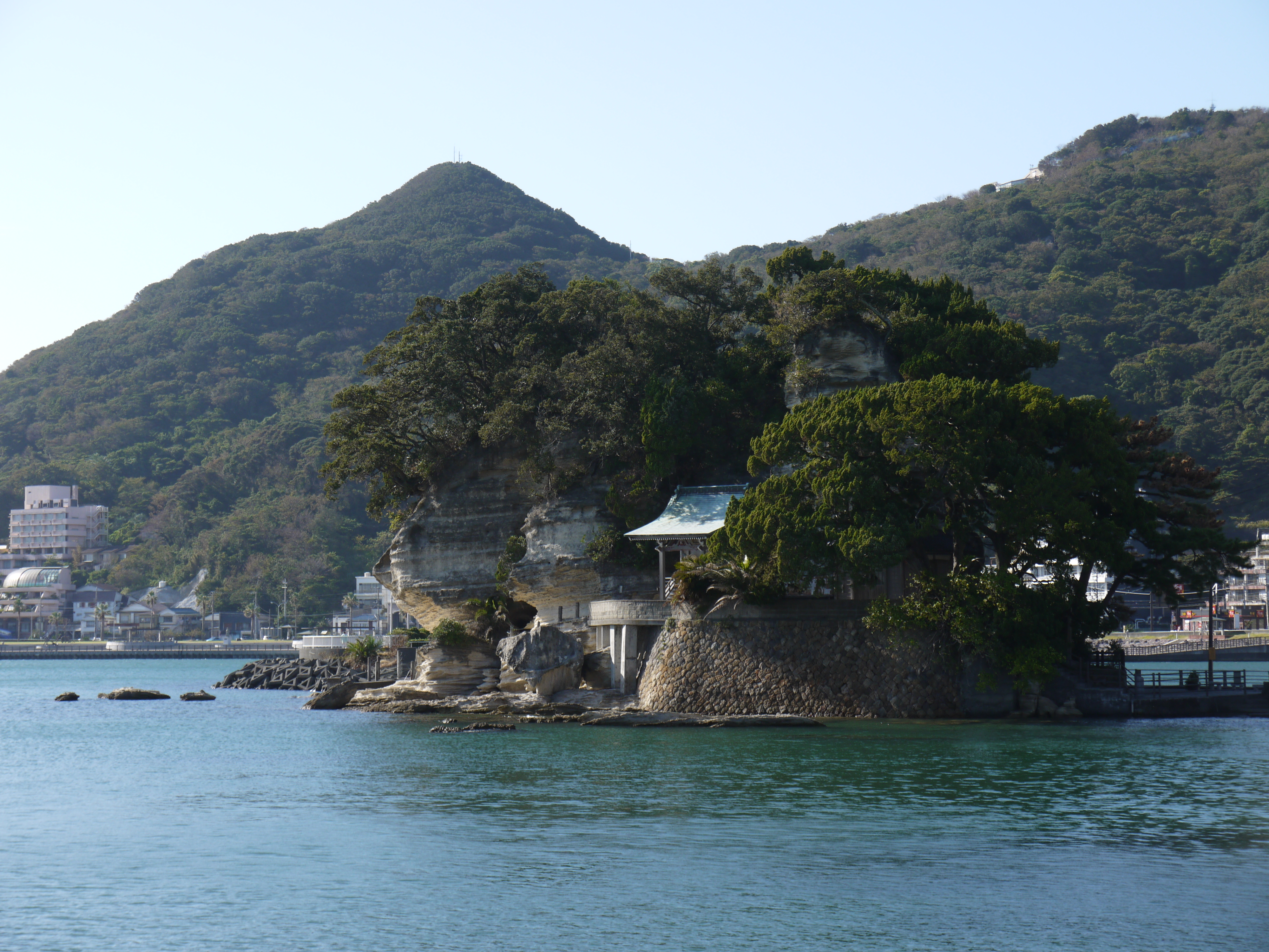 Bentenjima (Benten Island) in Simoda, Shizuoka Prefecture, Japan.